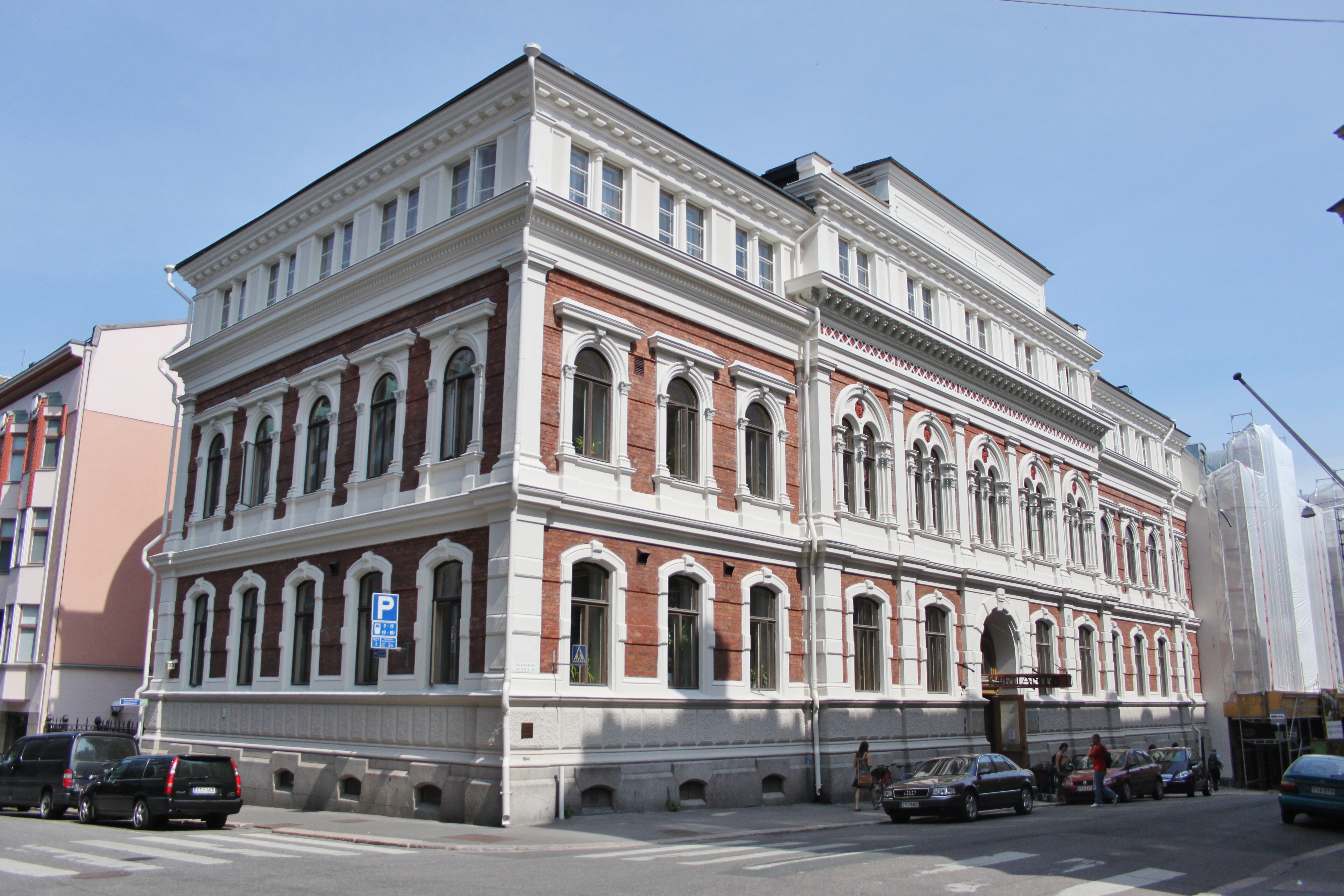 Rikhardinkatu Library, Korkeavuorenkatu 43 / Rikhardinkatu 3, Helsinki. Architecht: Theodor Höijer. Built 1881.